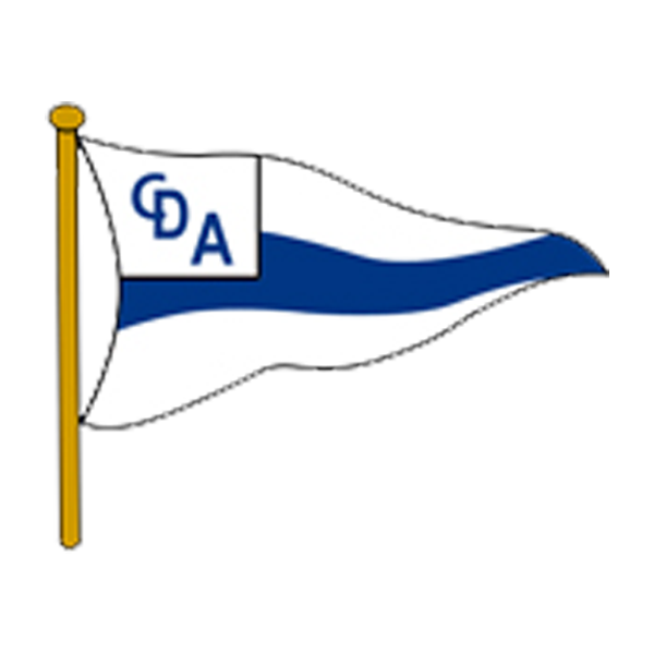 Deportivo Alavés crest adopted in 1922. Digitally enhanced and with alpha channel.